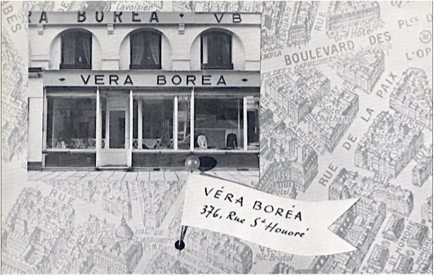 Shop Window of VERA BOREA in Paris, Rue Saint Honore